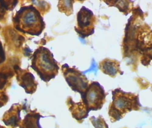 Macrophages in injured rat cortex stained by lectins. (Author: Grzegorz Wicher)